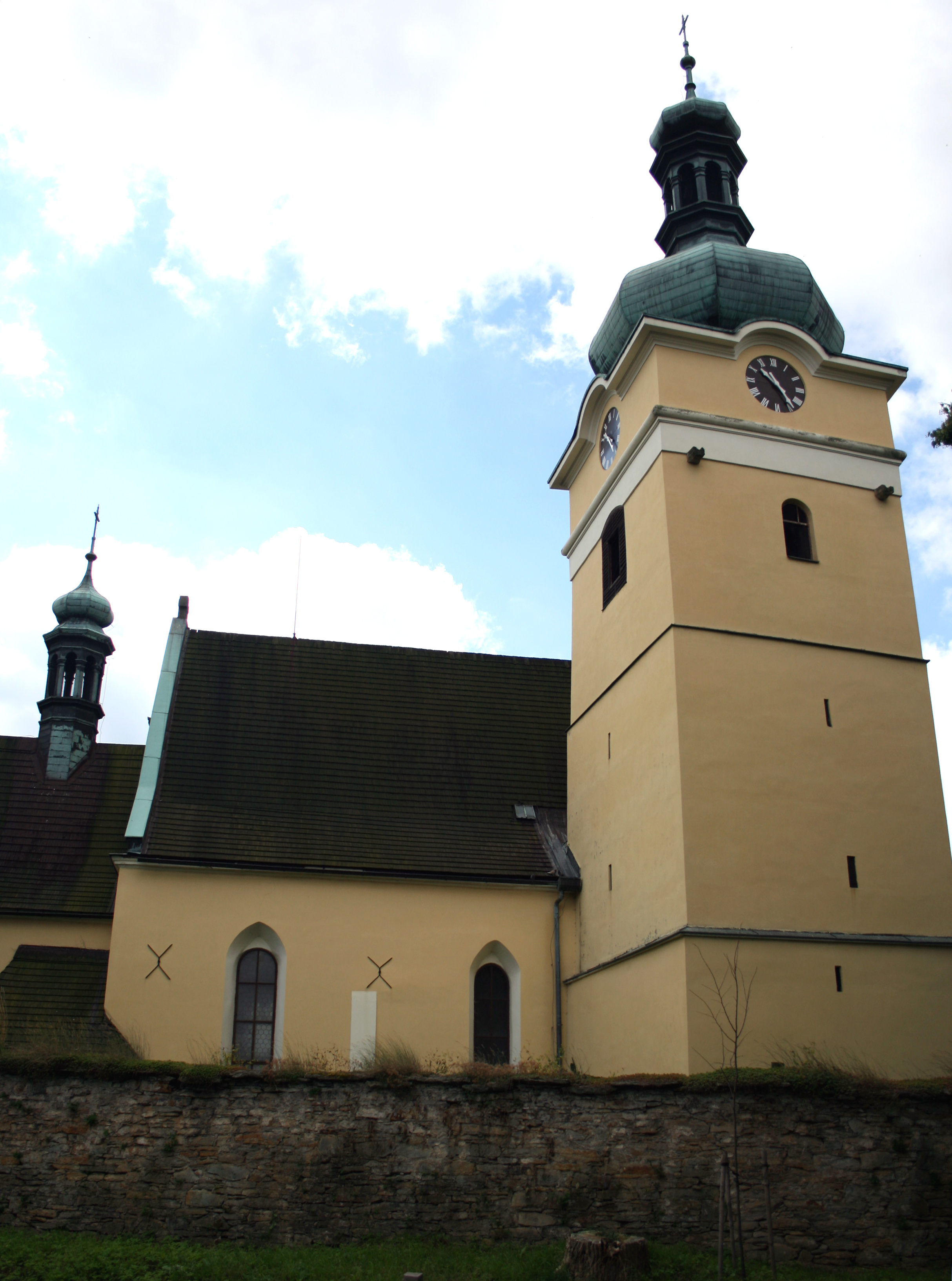 St Procopius church in Přepychy, Rychnov nad Kněžnou District, east Bohemia